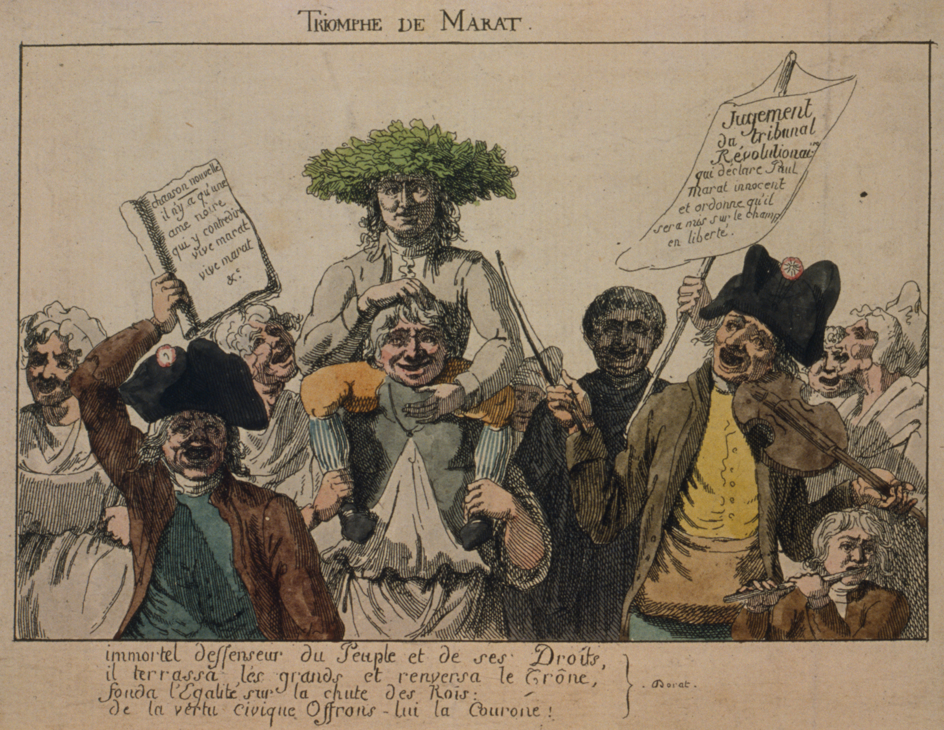 Jean-Paul Marat with crown of laurel leaves carried on shoulders of man around whom others are crowded; celebrating his acquittal by Revolutionary Tribunal. Etching with watercolor. Translation: Top: Marat's triumph Left: new song: there is only one black heart to be contradicted Marat lives Marat lives Etc. Right: Judgment of the revolutionary tribunal: it declares Paul Marat innocent and orders him to be freed immediately. Bottom: immotal defender of the people and their rights, he overthrew the nobles and the monarchy, founded equality upon the king’s fall out of civic virtue--let us offer him laurels.